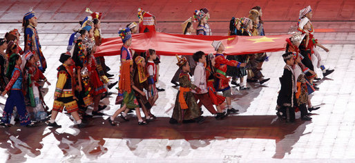 Young performers carry a Chinese flag into National Stadium Friday Aug.8, 2008, during the Opening Ceremonies of the 2008 Summer Olympic Games in Beijing.